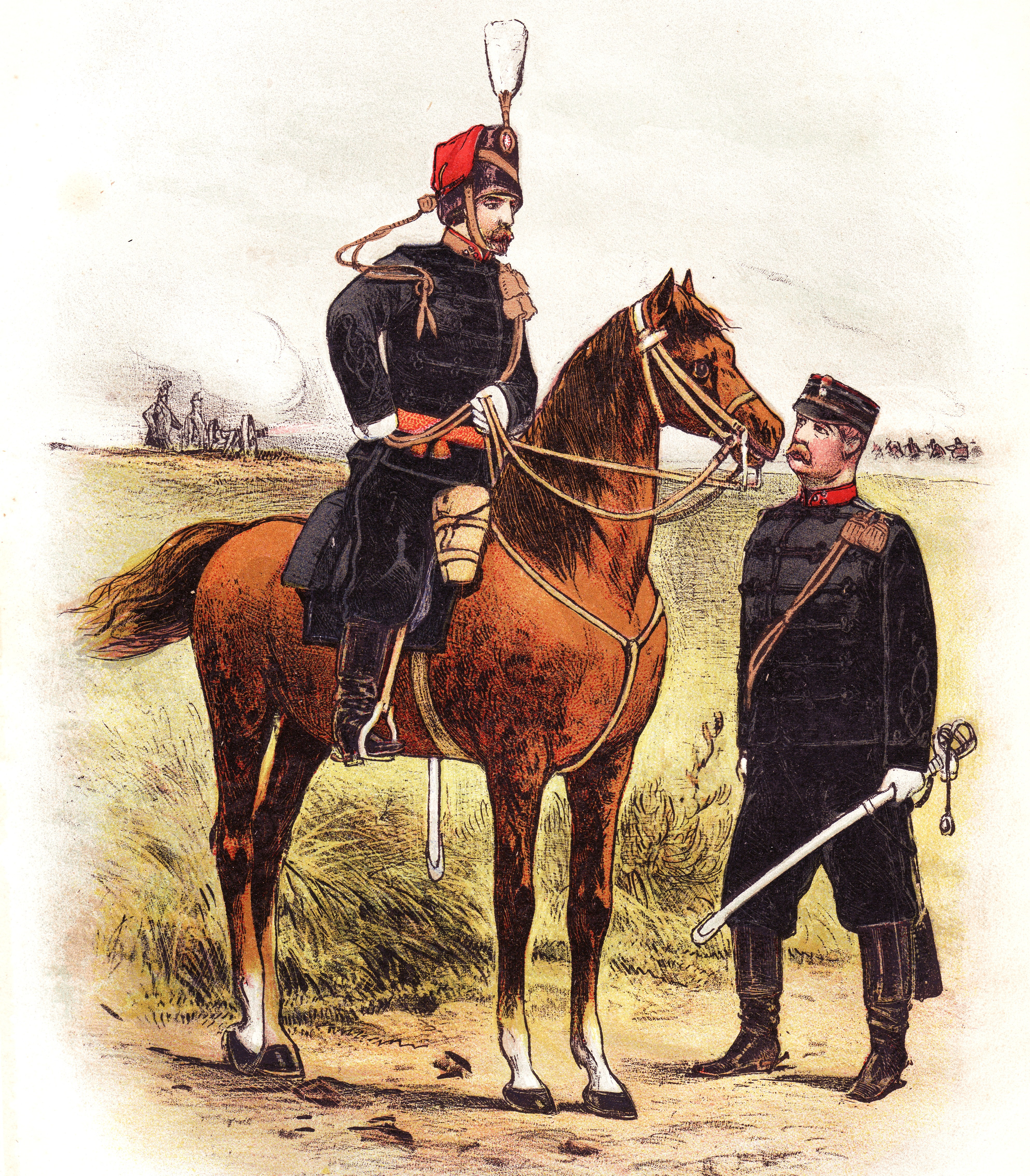 Generale staf